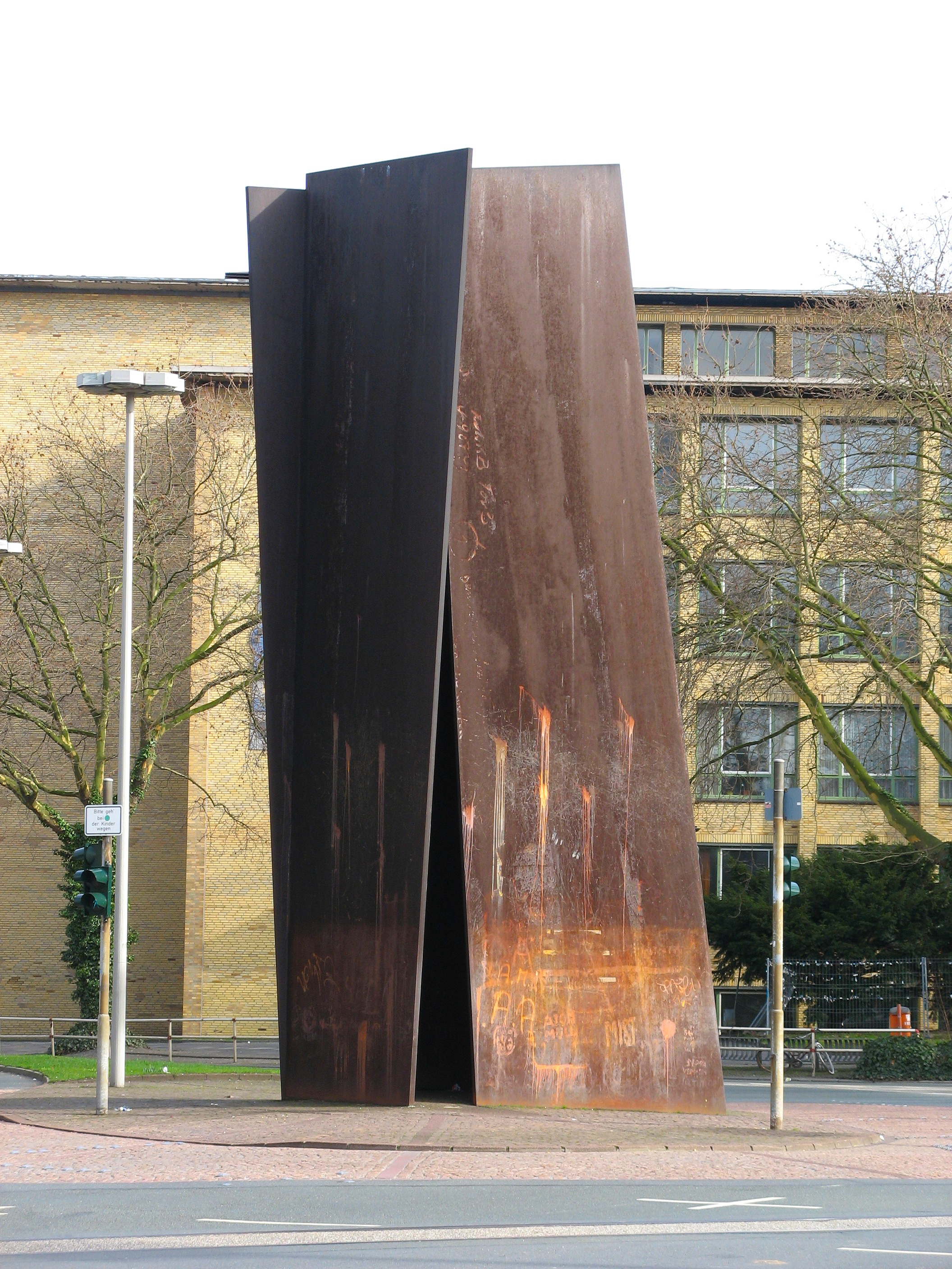 "Terminal" by sculptor Richard Serra, downtown Bochum, Germany